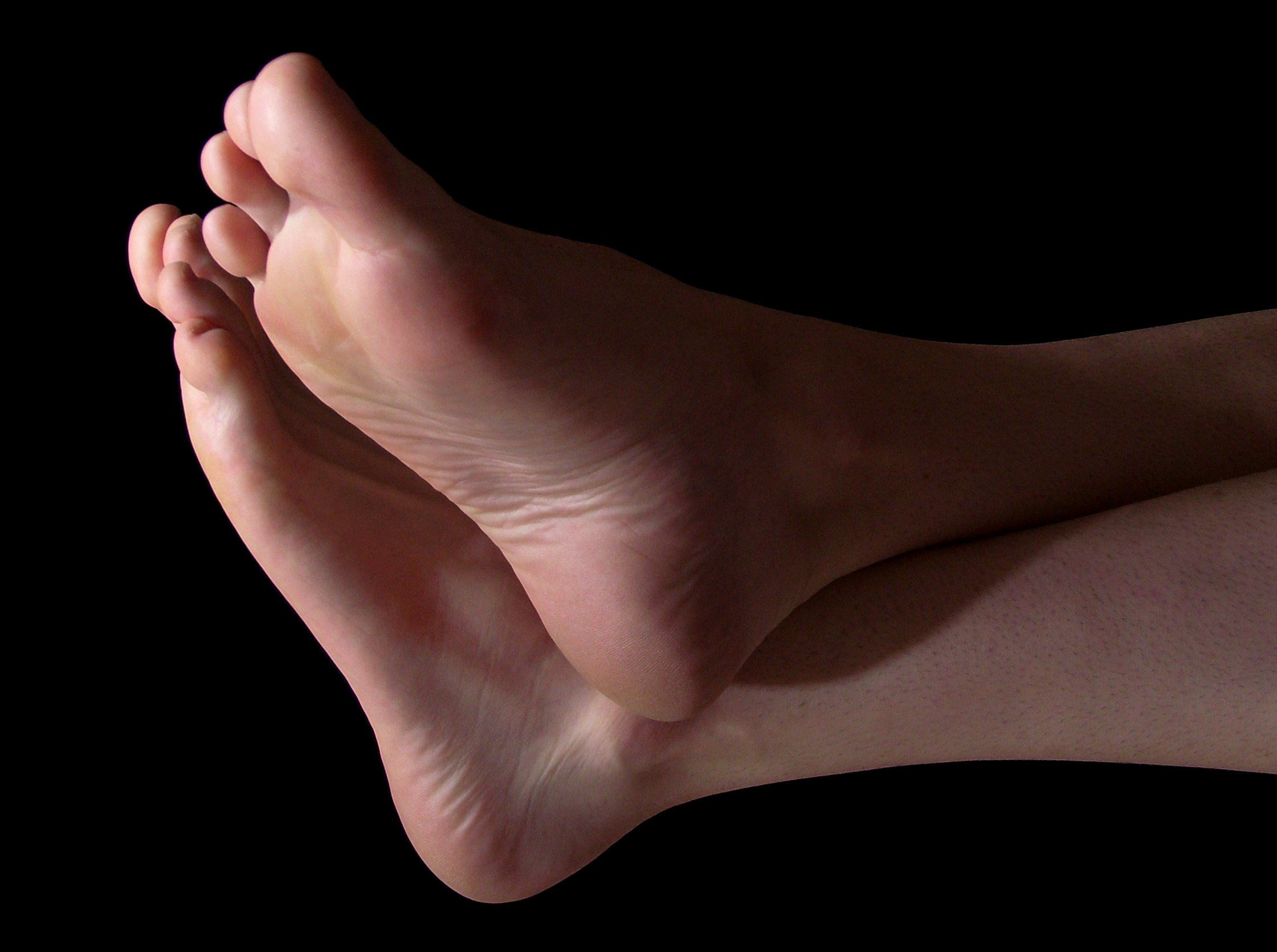 Photo of man's feet